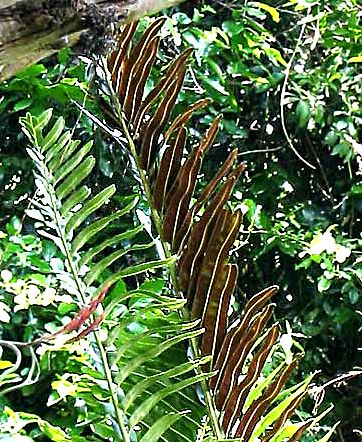 Modification of Wikimedia Commons file: Dense sori.jpg